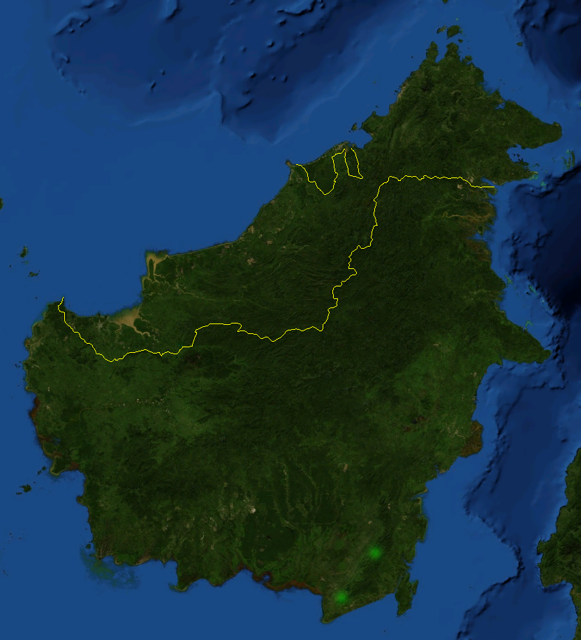 Past and present distribution of Nepenthes boschiana. Distribution: Gunung Besar Gunung Sakumbang